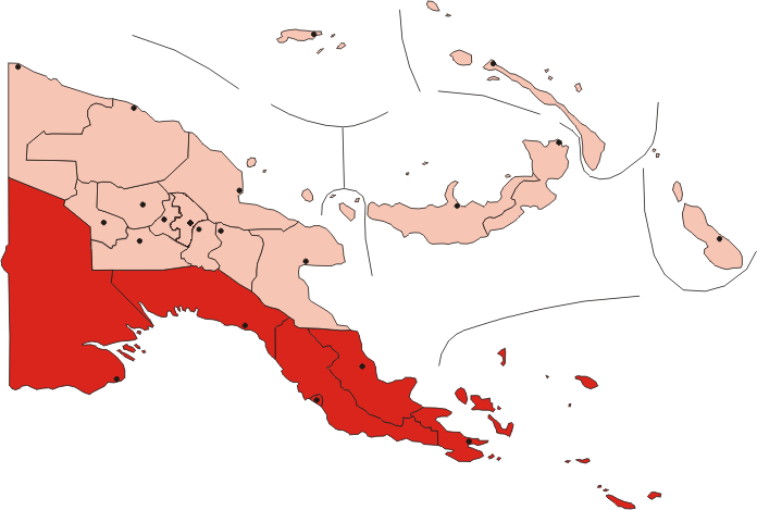 Locator map of Papua Region of Papua New Guinea